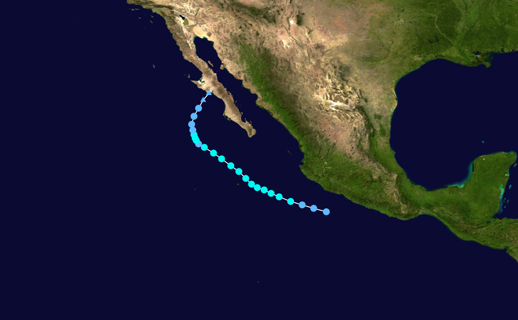 Tropical Storm Norma (1970) track. Uses the color scheme from the Saffir-Simpson Hurricane Scale.